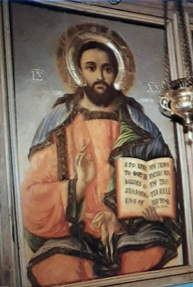 Sts. Theodore Tyron & Theodore Stratelates, Kastoria